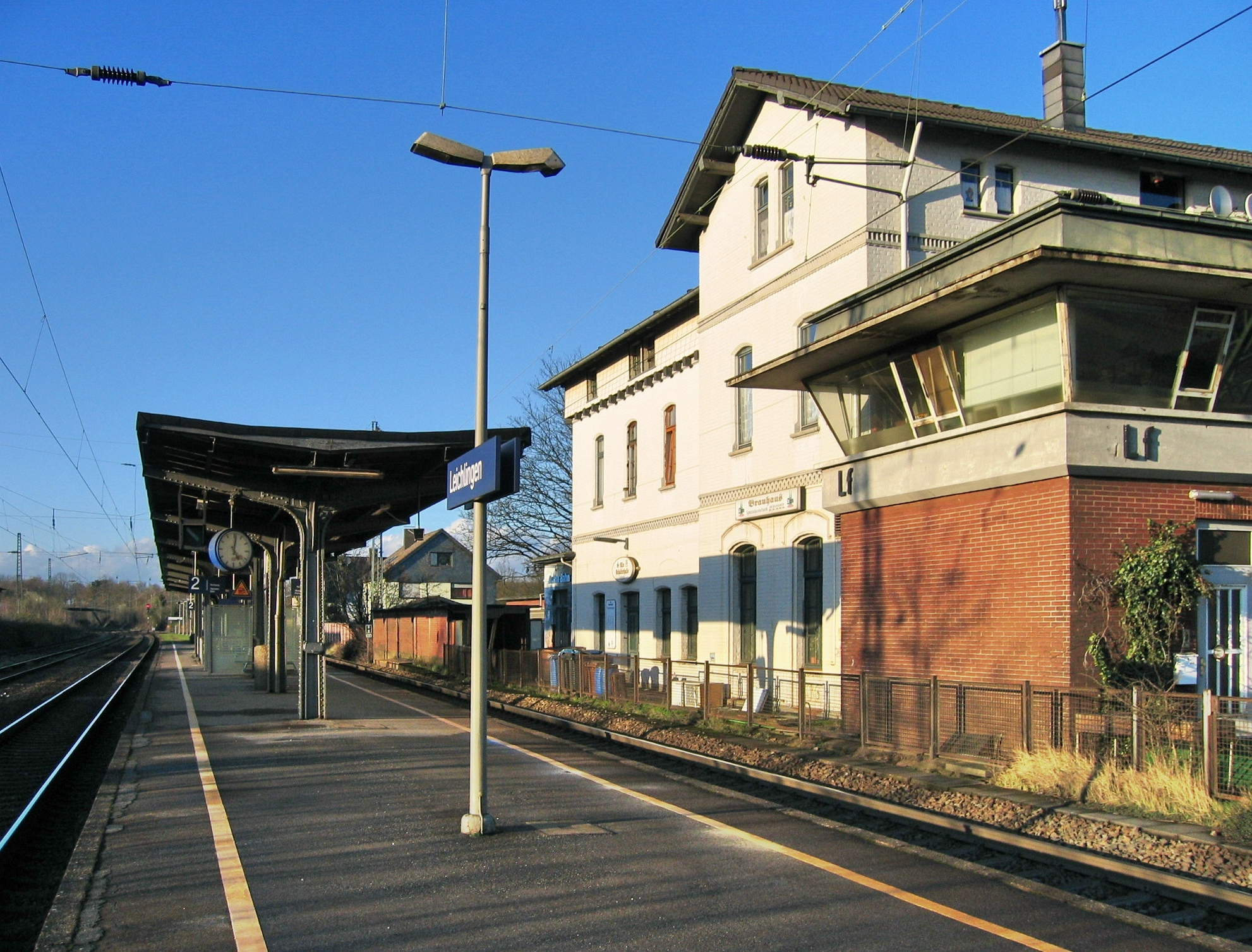 Leichlingen train station, NRW, Germany